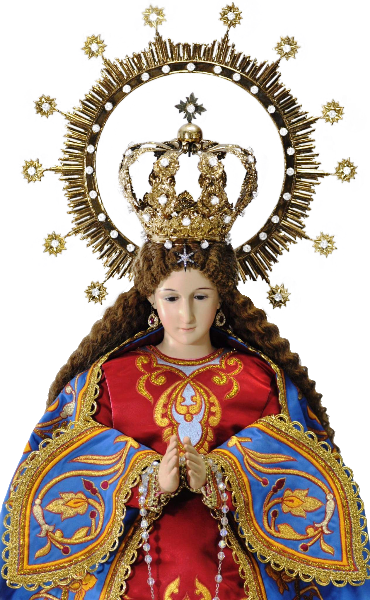 Virgen De Los Remedios de Pampanga Coronada